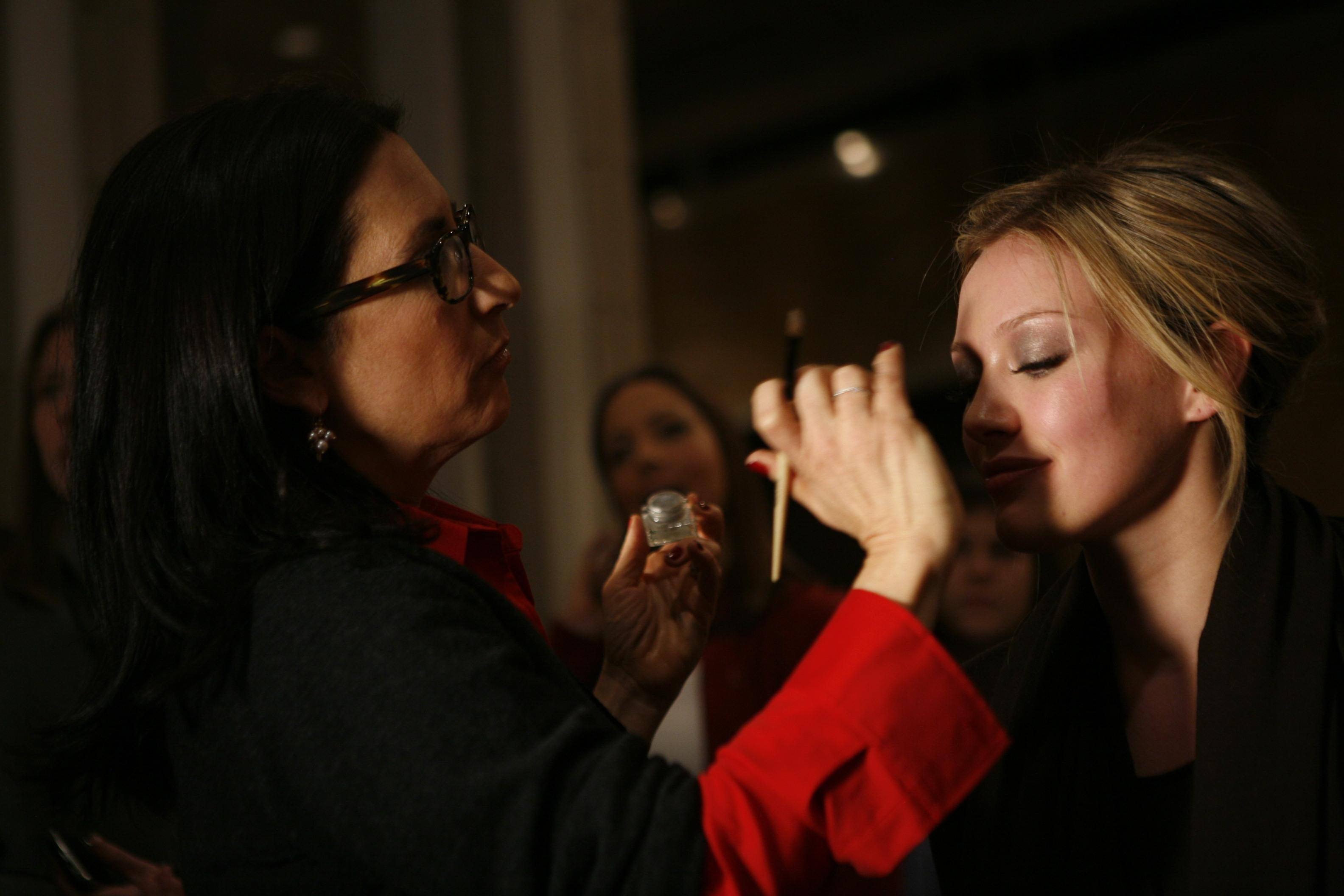 Bobbi Brown doing Hilary Duff's make-up backstage at The Heart Truth's Red Dress Collection Fashion Show during New York Fashion Week. February 13, 2009 at Bryant Park.